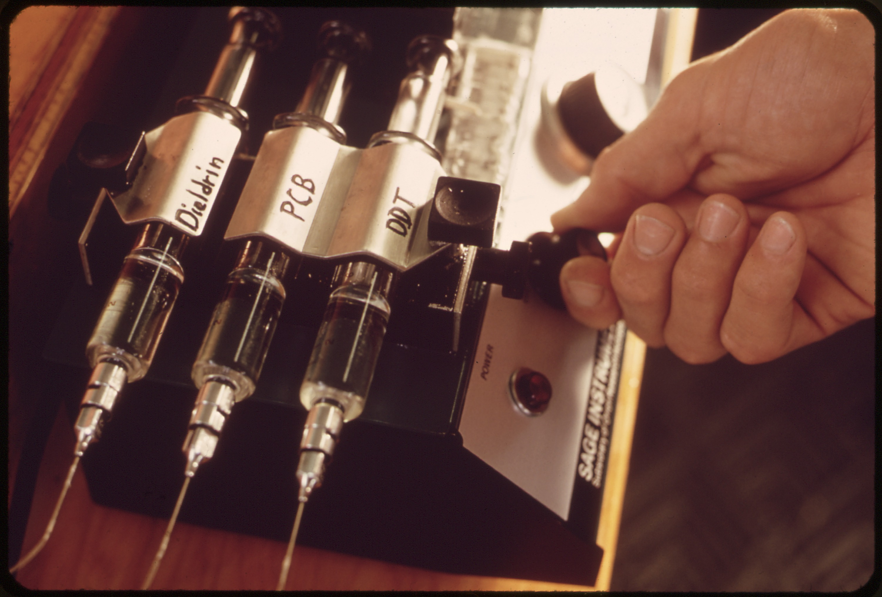 EPA GULF BREEZE LABORATORY, BIOASSAY WET LAB. THIS IS A CLOSE-UP OF A SYRINGE PUMP, WHICH CONTROLS THE RATE OF FLOW